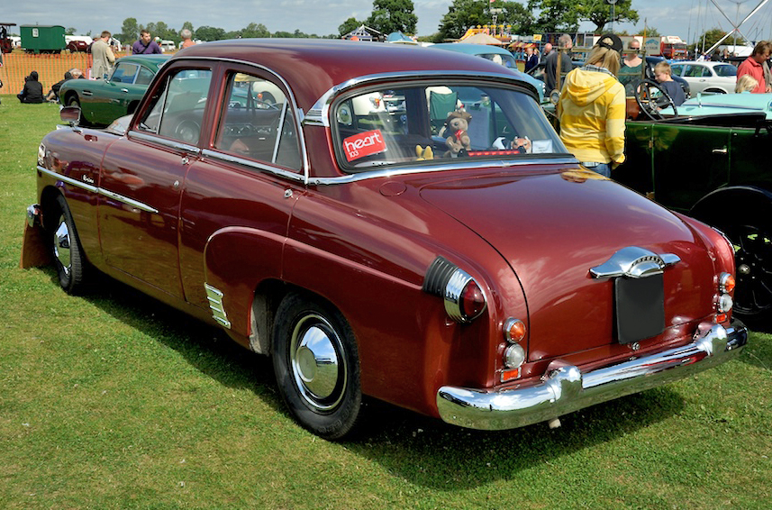 1956 Vauxhall Velox (EIP)